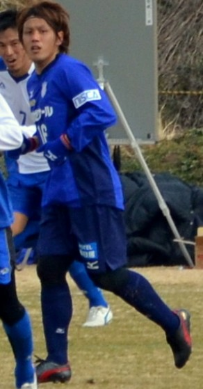 Masaru Matsuhashi cropped from kofu - shonan